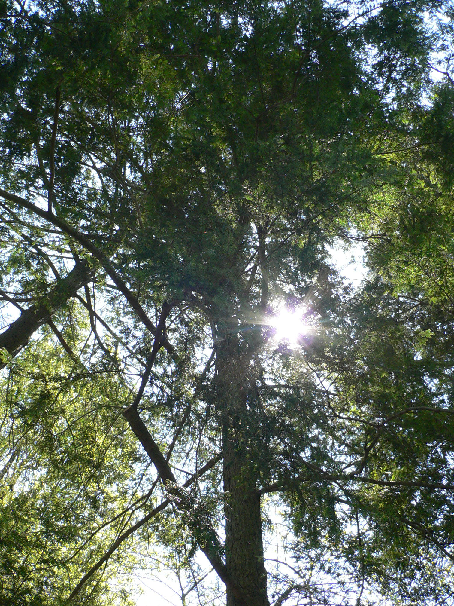 Tsuga canadensis at Longwood Gardens